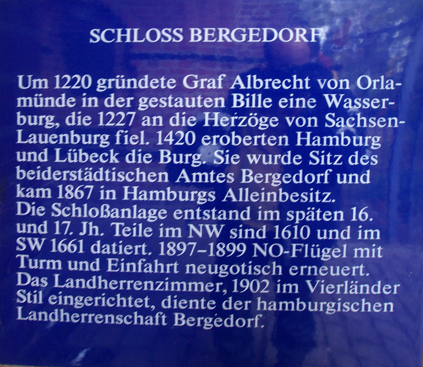 Hamburg (Bergedorf), Germany: Plaque at the entrance of the Castle of Bergedorf